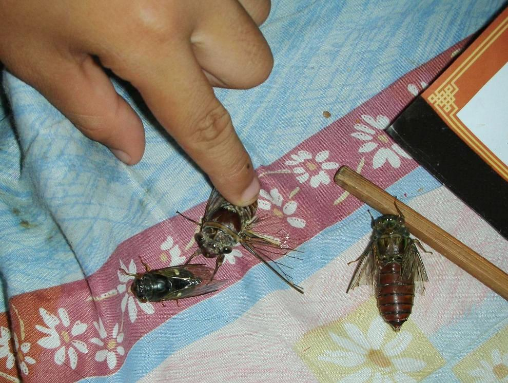 Cicadas caught by Wa people in Mae Sai, Thailand, in order to crush them with chilies in a chili paste mixture, which in Thai would be called Nam phrik chakchan" (Thai script: น้ำพริกจั๊กจั่น; lit. "sauce chili cicada"